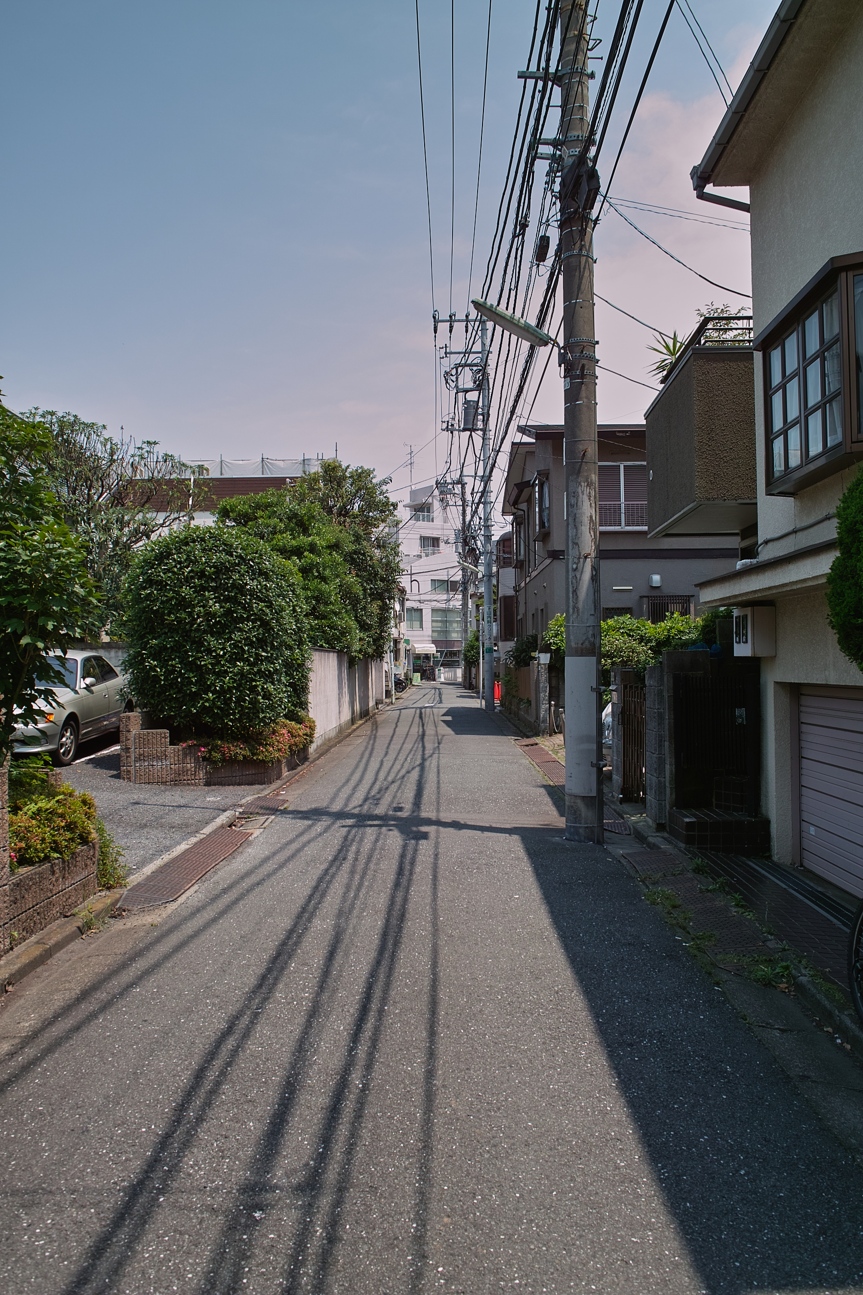 Shimokitazawa, Tokyo, Japan 2008/06/14. A test shot of DP1 with ISO50.